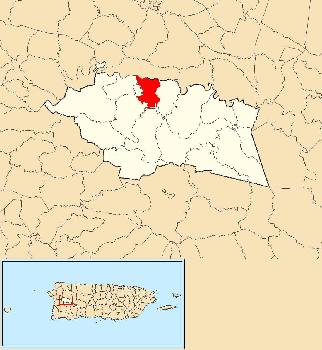 Maravilla Norte, Las Marías, Puerto Rico locator map